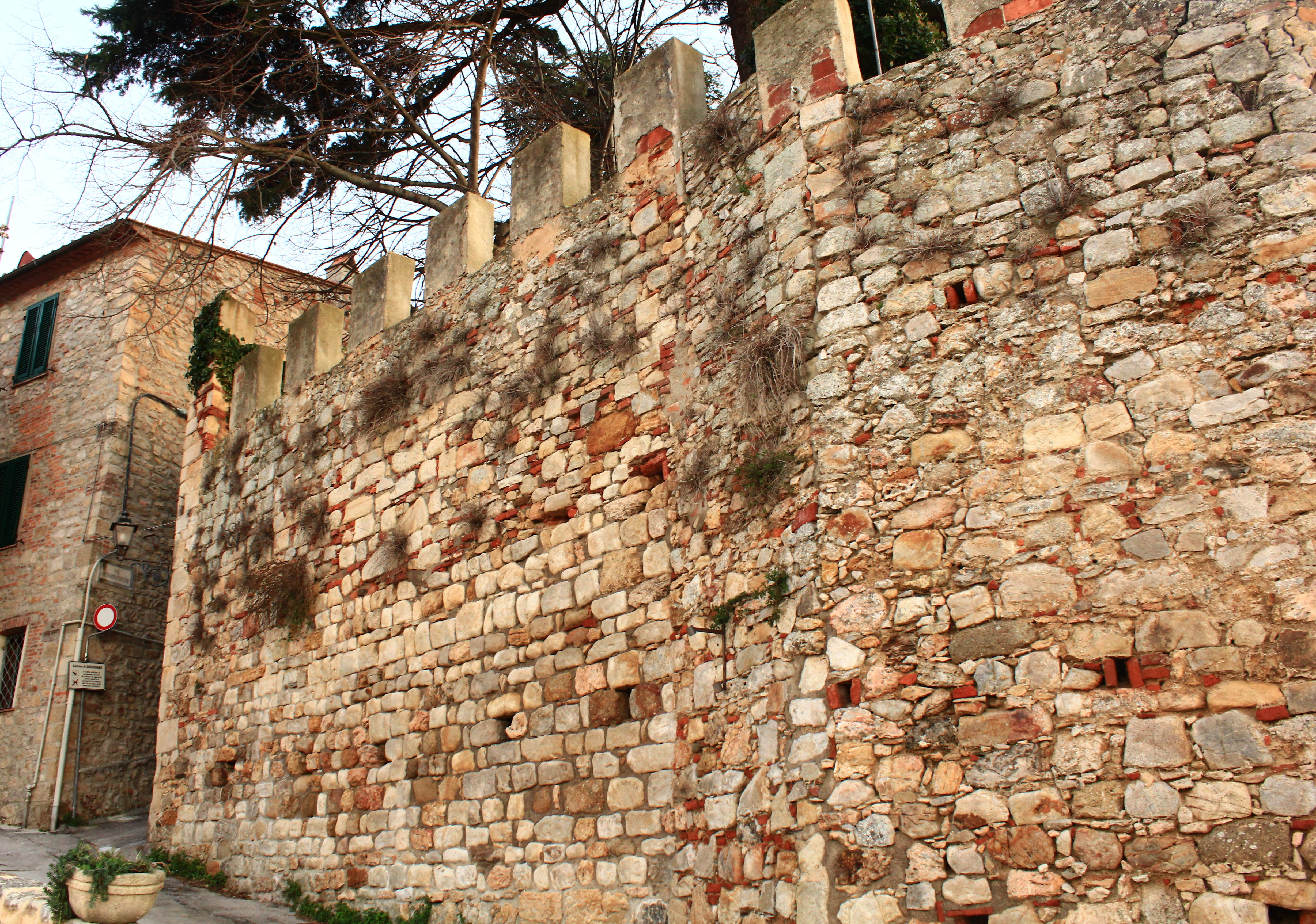 Walls of Gavorrano, Grosseto